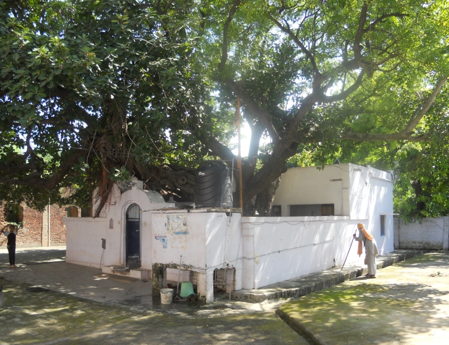 Historical Gurdwara situated in Raipur Rani remarks Guru Gobind Singh visit to this place and sermonizing The Queen. This photograph is taken with help of Narinder Singh Bhangu of , who are doing wonderful job covering all Gurdwaras around the world.